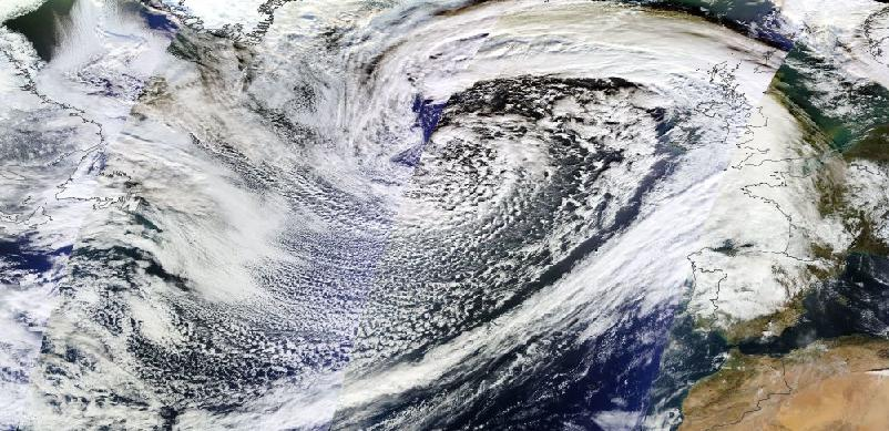 Extratropical cyclone Christine over Atlantic 05 January 2014